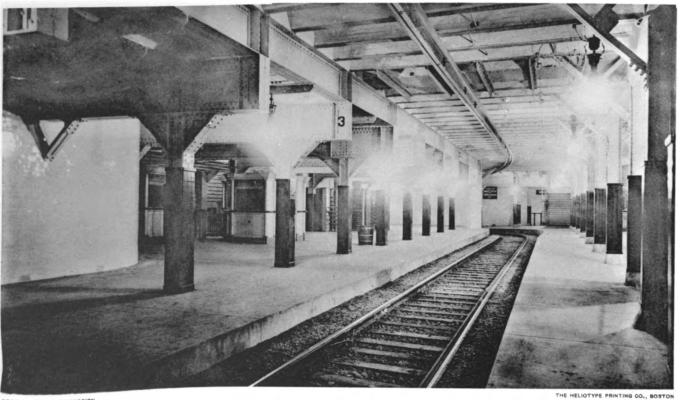 Brattle Loop and additional platform at Scollay Square (now Government Center). A false wall has been erected immediately right of the track, and the additional platform on the left is no longer used in regular service.Original caption: PLATFORMS FOR RETURN LOOP, SCOLLAY-SQUARE STATION--NEW ADDITIONAL PLATFORM ON THE LEFT (LOOKING SOUTH).